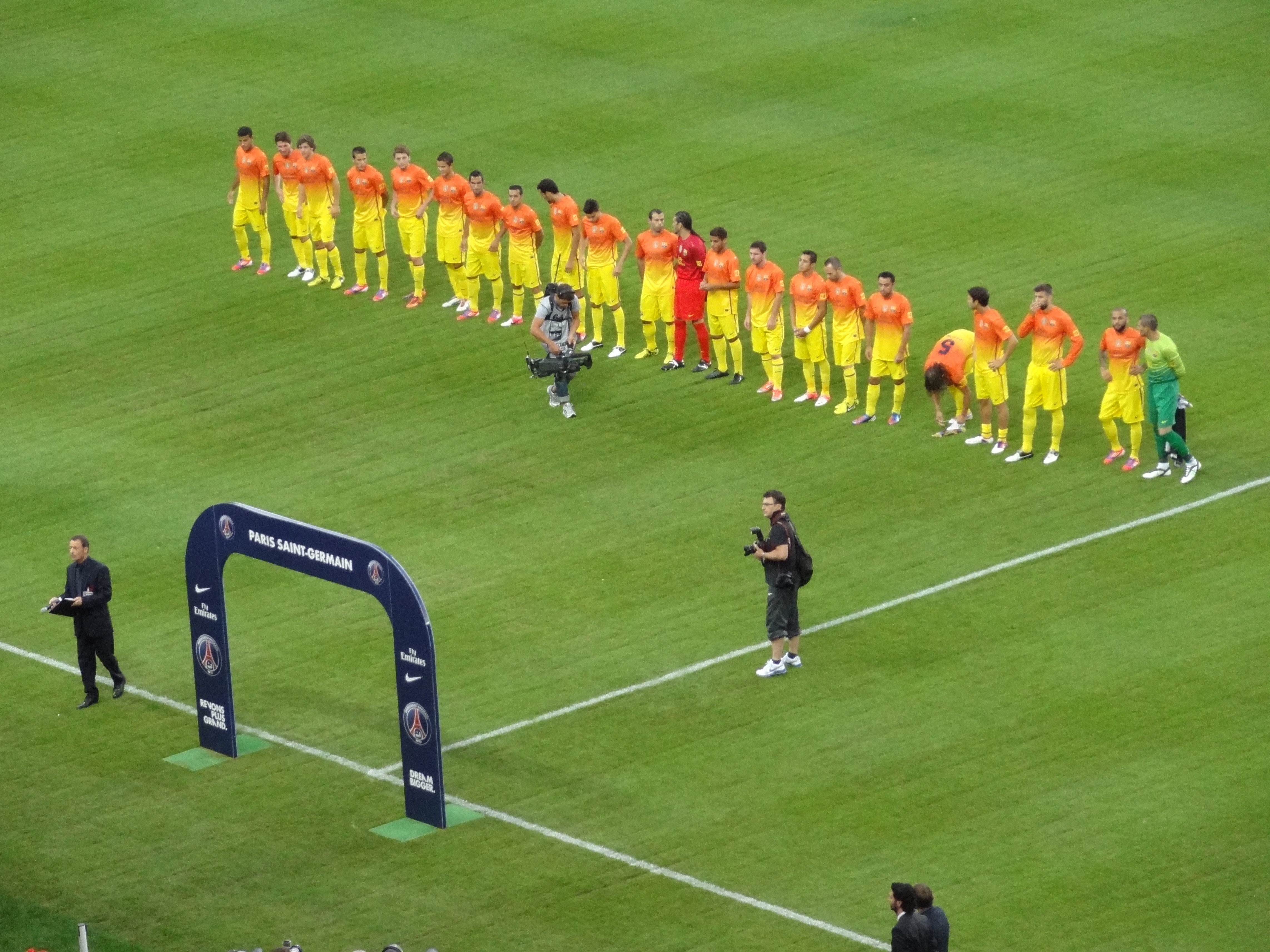 FC Barcelona 2012-2013 (Parc des Princes)